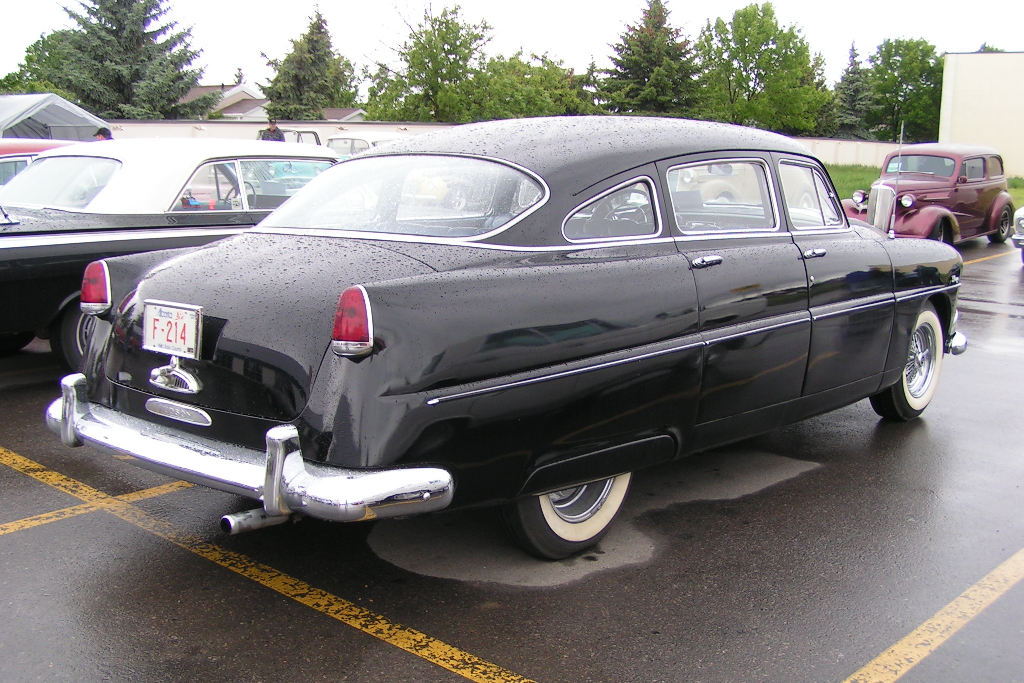 1954 Hudson Wasp